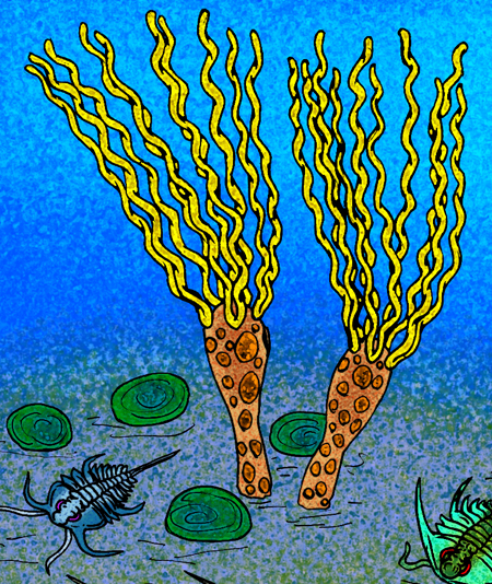 The eocrinoid echinoderm Gogia ojenai, of Cambrian California.